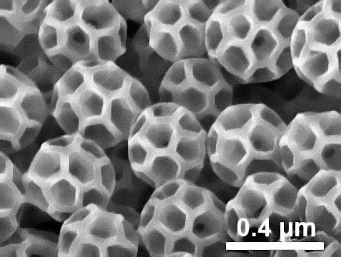 Brochosomes of a leafhopper, scanning electron micrograph